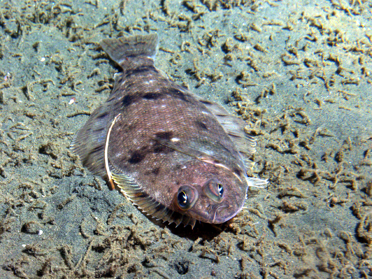 Dover sole (Microstomus pacificus) observed off Pt Pinos during a sanctuary seafloor monitoring survey using the Delta submersible.